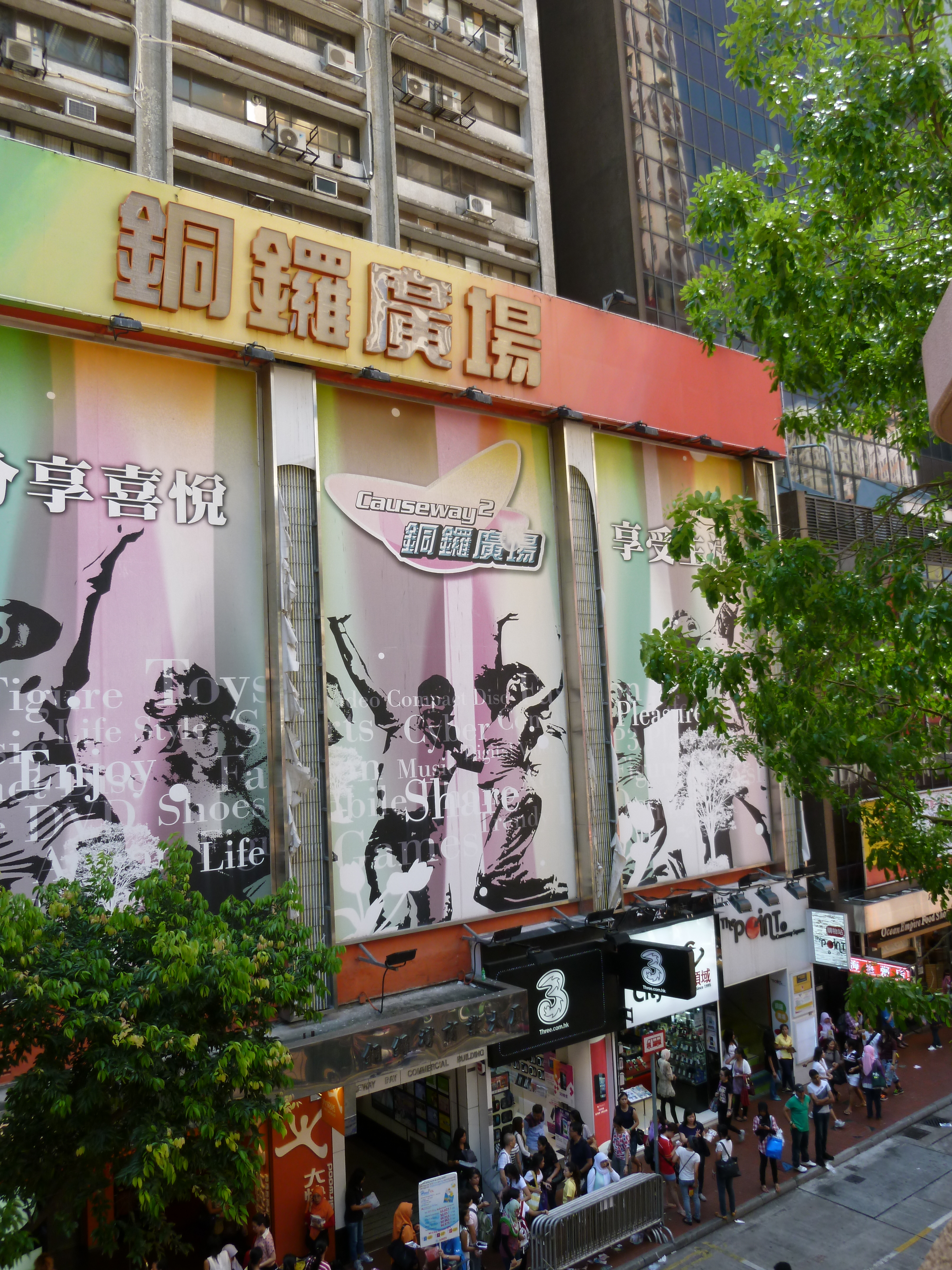 Causeway Square (Sugar Street, Causeway Bay, Hong Kong) 中文（香港）: 銅鑼廣場 (香港銅鑼灣糖街3號)